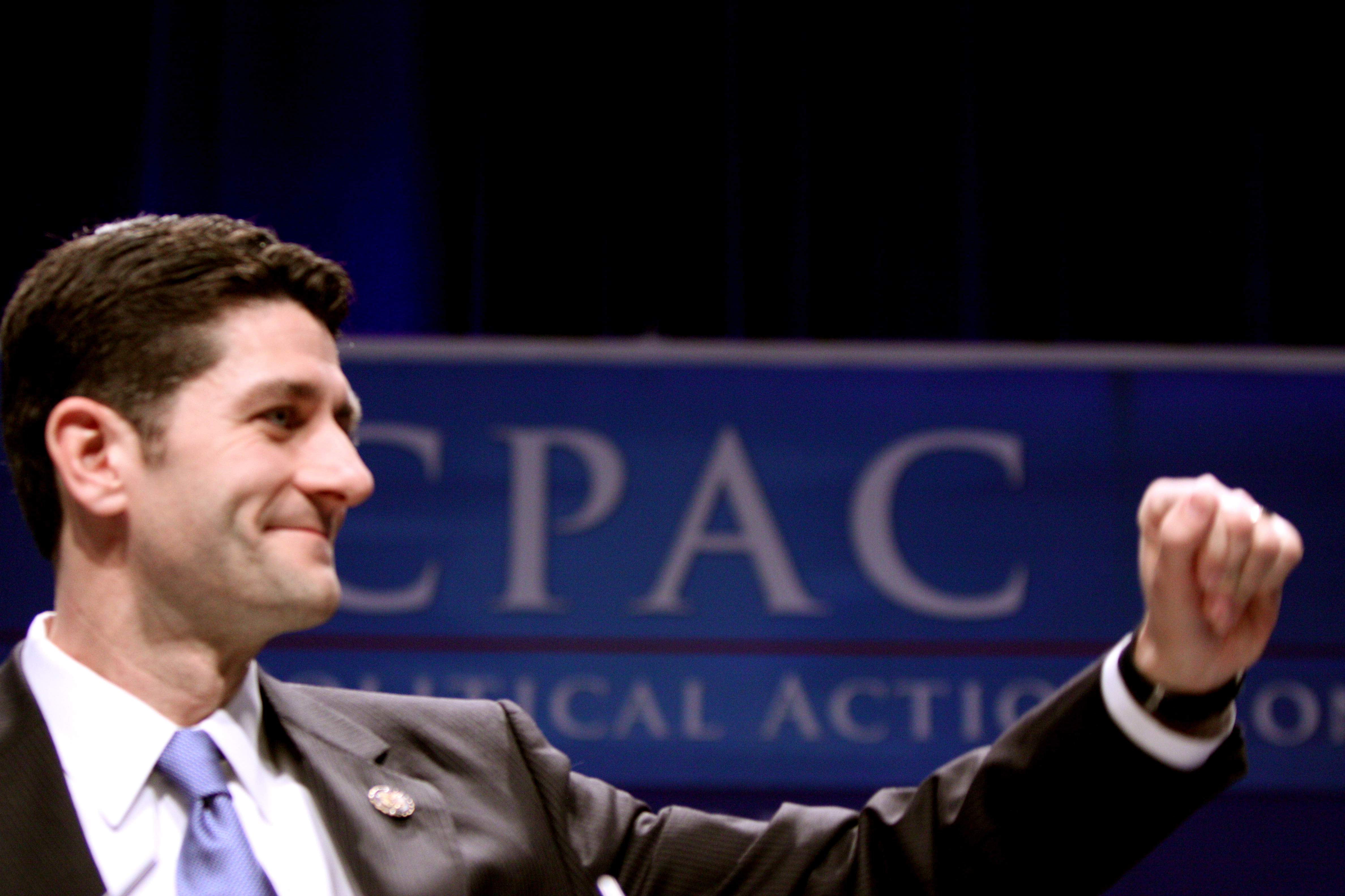 Congressman Paul Ryan of Wisconsin speaking at CPAC 2011 in Washington, D.C.